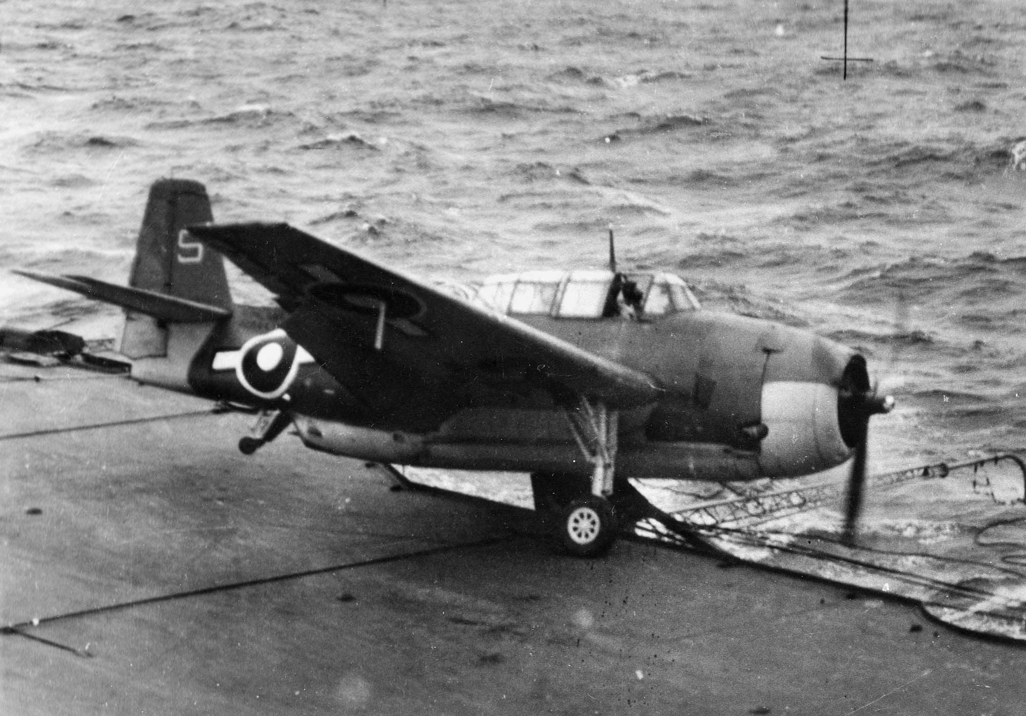 A Royal Navy Grumman Avenger Mk.II (serial JZ 444) from 820 Naval Air Squadron, going over the edge of the deck of the aircraft carrier HMS Indefatigable (R10), in 1945.